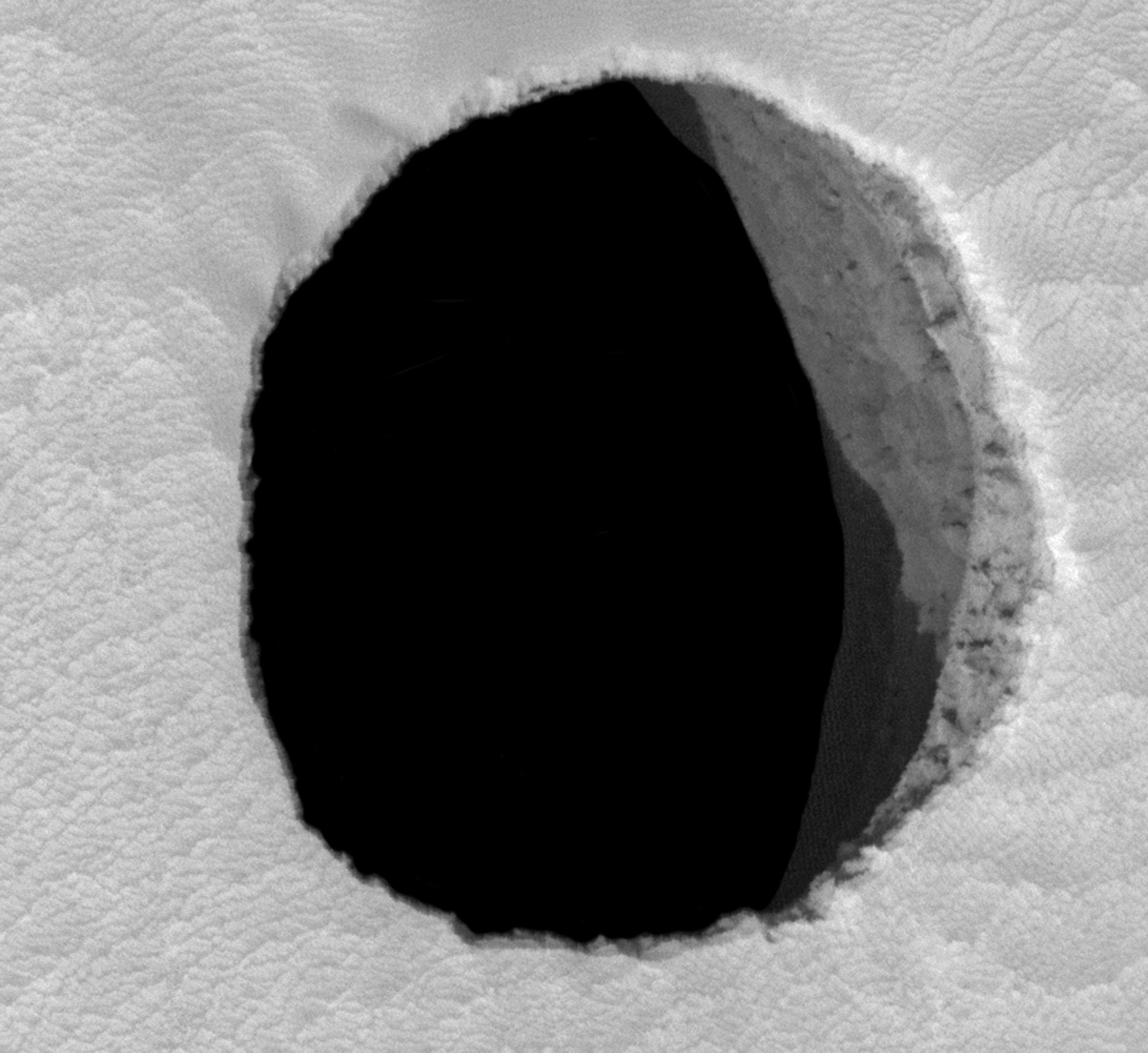 Dark pits on some of the Martian volcanoes have been speculated to be entrances into caves. A previous HiRISE image, looking essentially straight down, saw only darkness in this pit. This time the pit was imaged from the west. Since the picture was taken at about 2:30 p.m. local (Mars) time, the sun was also shining from the west. We can now see the eastern wall of the pit catching the sunlight. This confirms that this pit is essentially a vertical shaft cut through the lava flows on the flank of the volcano. Such pits form on similar volcanoes in Hawaii and are called "pit craters." They generally do not connect to long open caverns but are the result of deep underground collapse. From the shadow of the rim cast onto the wall of the pit we can calculate that the pit is at least 178 meters (584 feet) deep. The pit is 150 x 157 meters (492 x 515 feet) across. Written by: Laszlo P. Keszthelyi Original release: 29 August 2007 (from The original NASA image has been modified by lightening shadows, adjusting brightness and contrast, removing artifacts and doubling the linear pixel density.